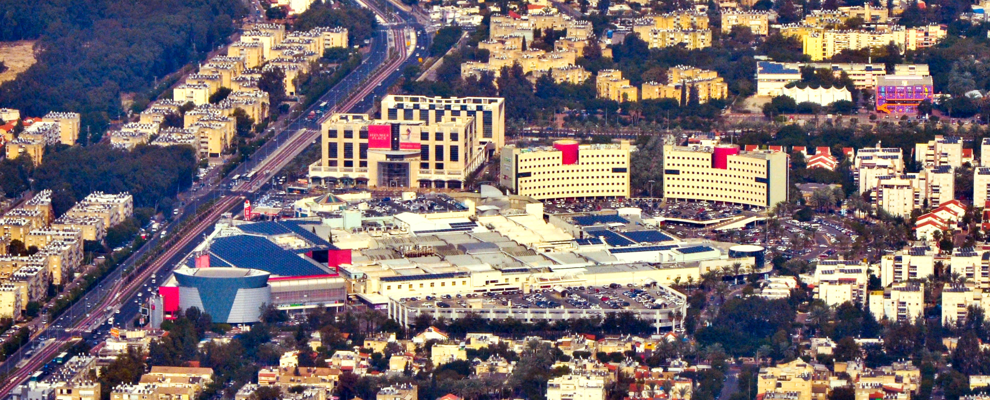 Aerial view of the Kiryon shopping center - looking from the south. Derivative work of File:Krayon.jpg